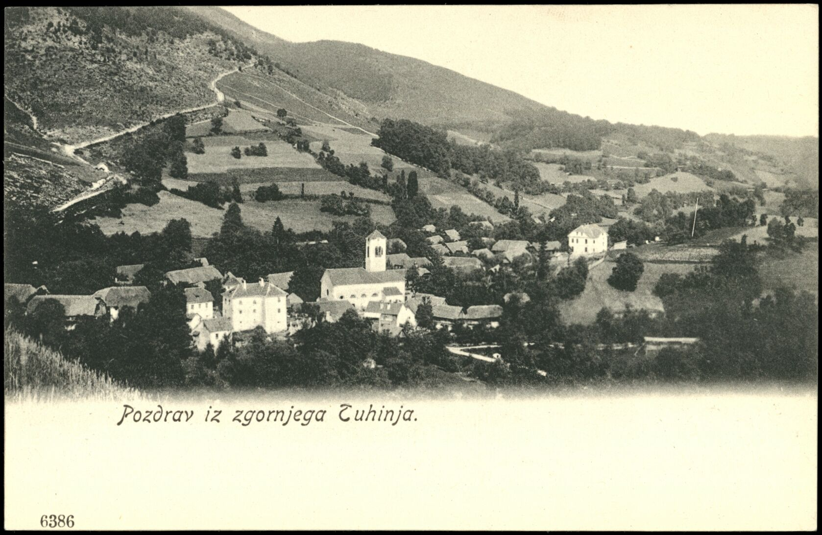 Postcard of Zgornji Tuhinj.